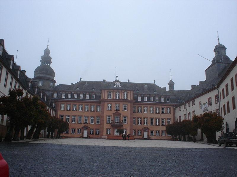 Courtyard of Schloss Wittgenstein